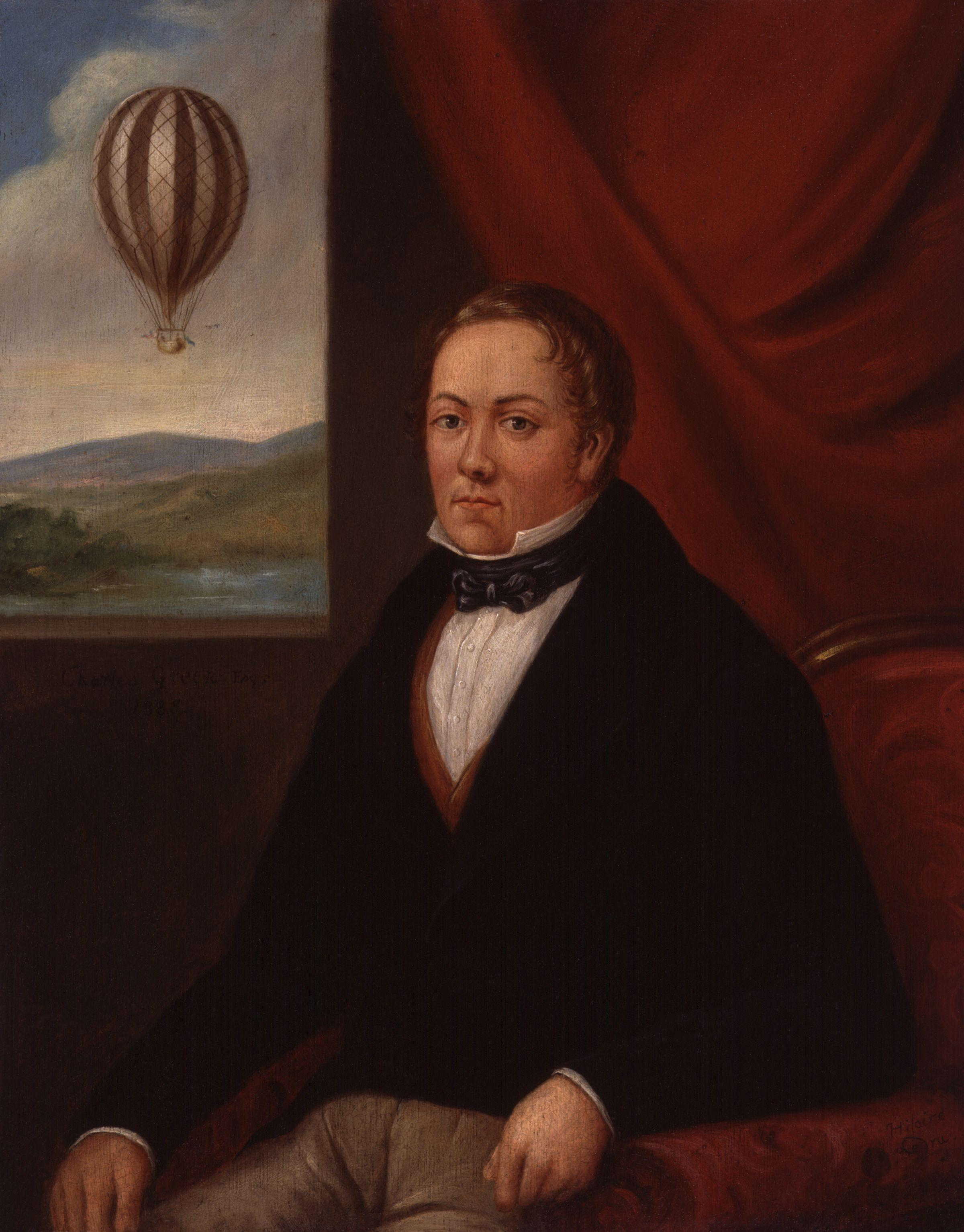 All images in this batch have been confirmed as author died before 1939 according to the official death date listed by the NPG.